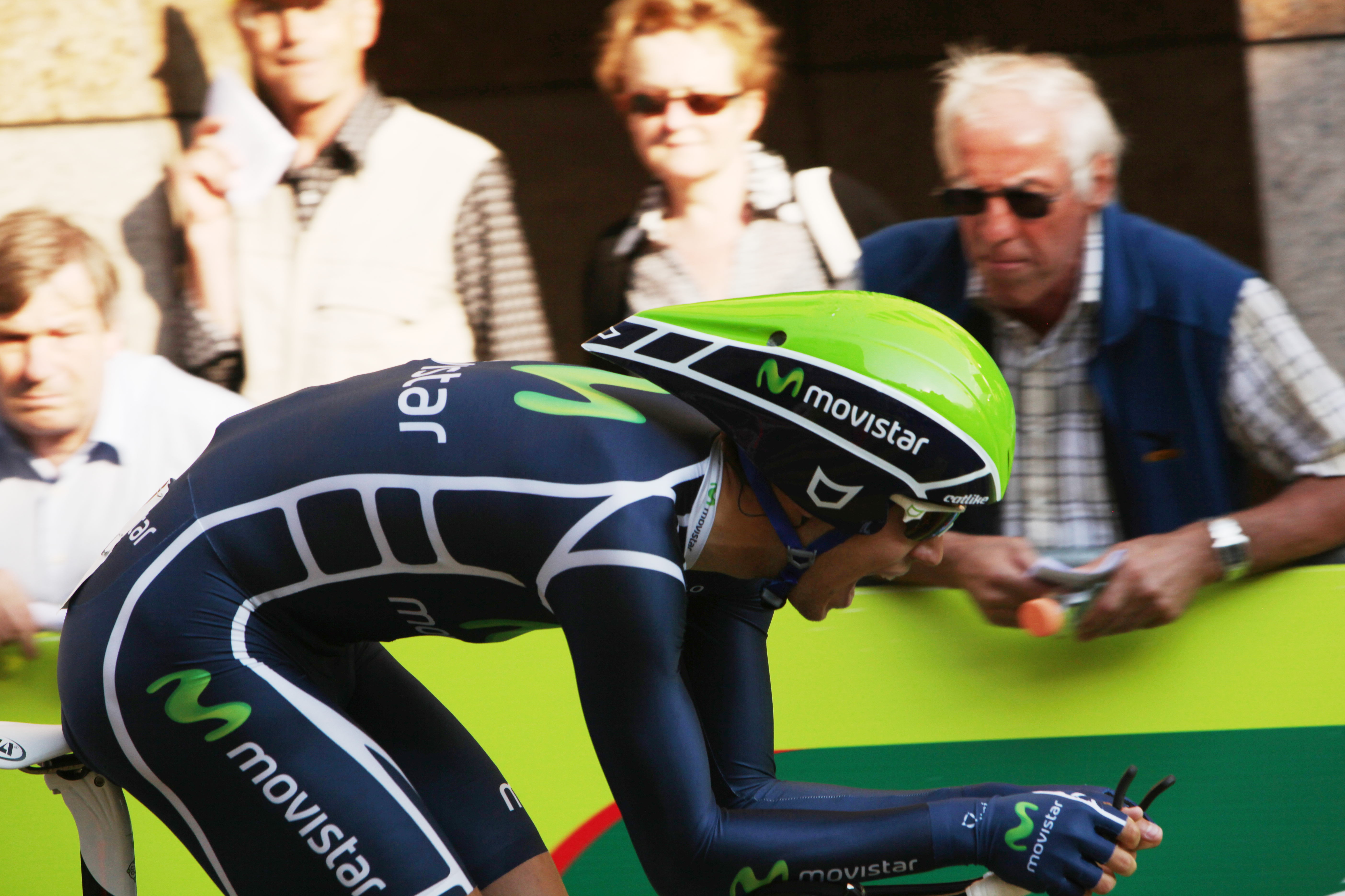 Jesus Herrada at the prologue of the Tour de Romandie 2011